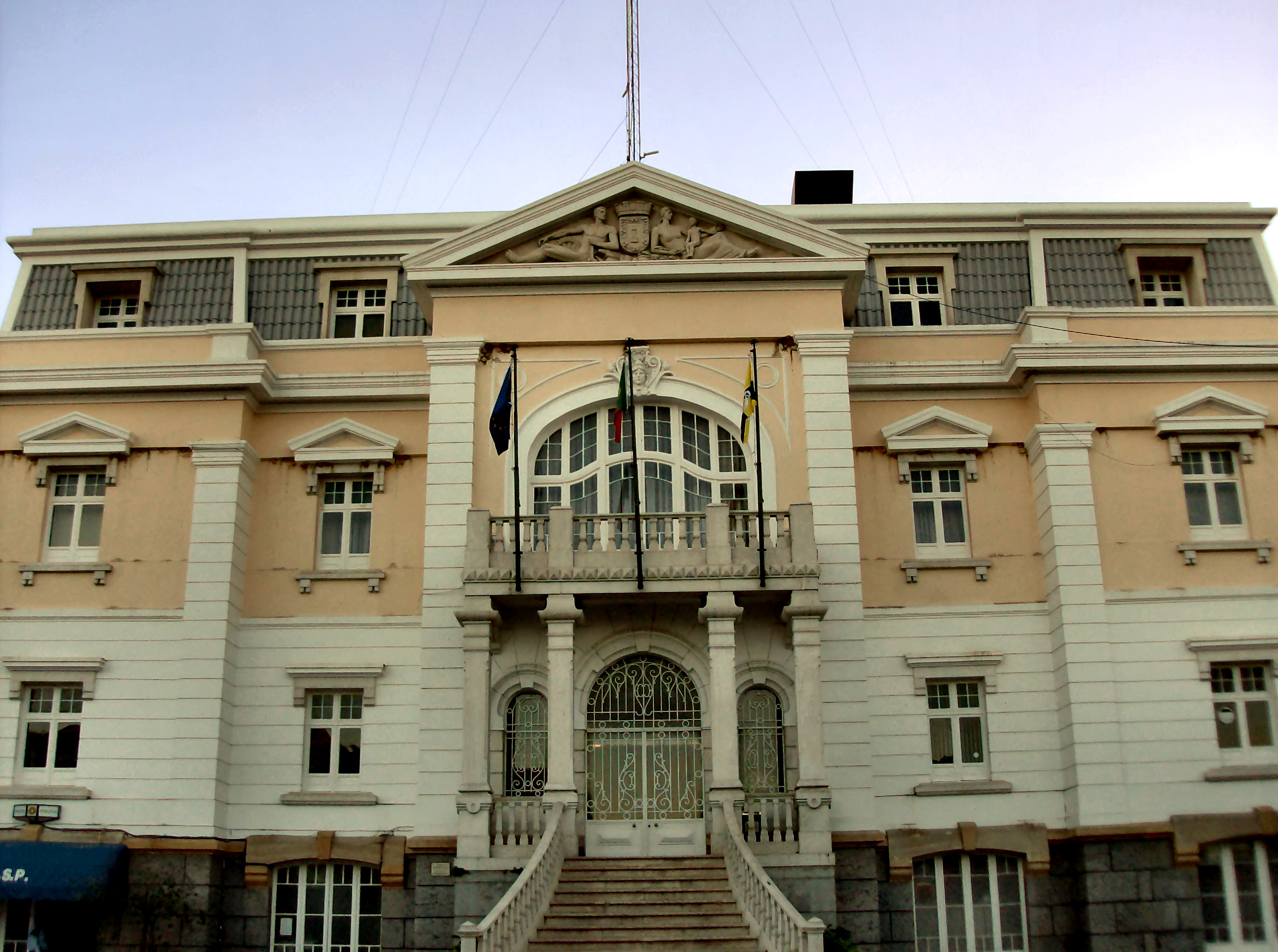 Loures City Council